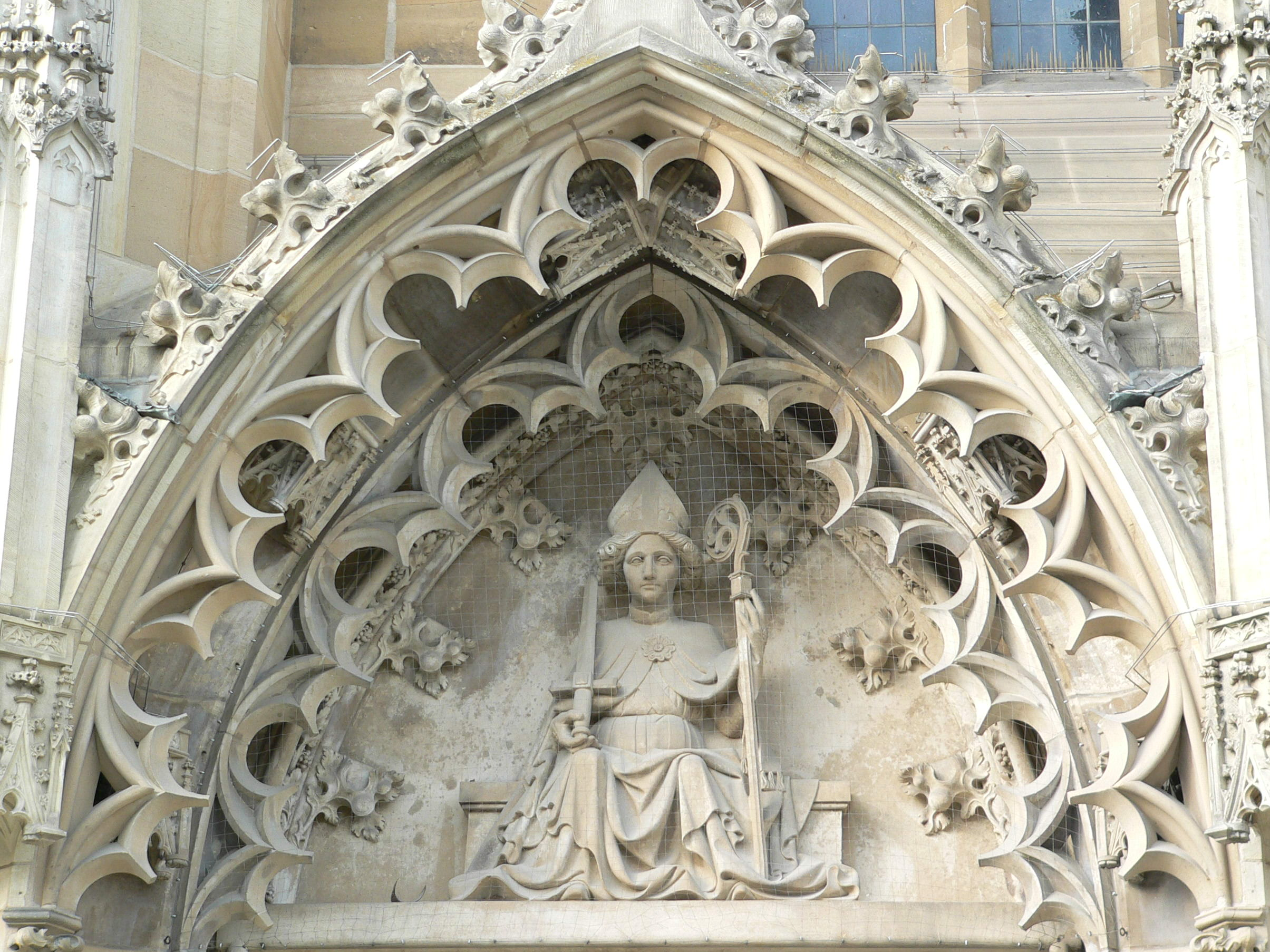 Saint Kilian on the middle South Portal of the Church Kilianskirche of Heilbronn - Germany